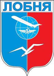 Lobnya (Moscow oblast), coat of arms (1980)